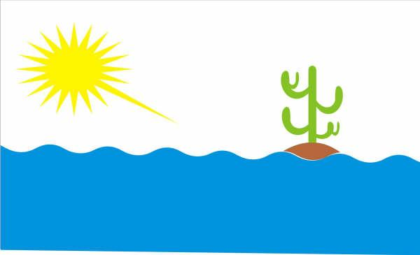 Bandeira do Município de Belém de São Francisco-PE - Brasil